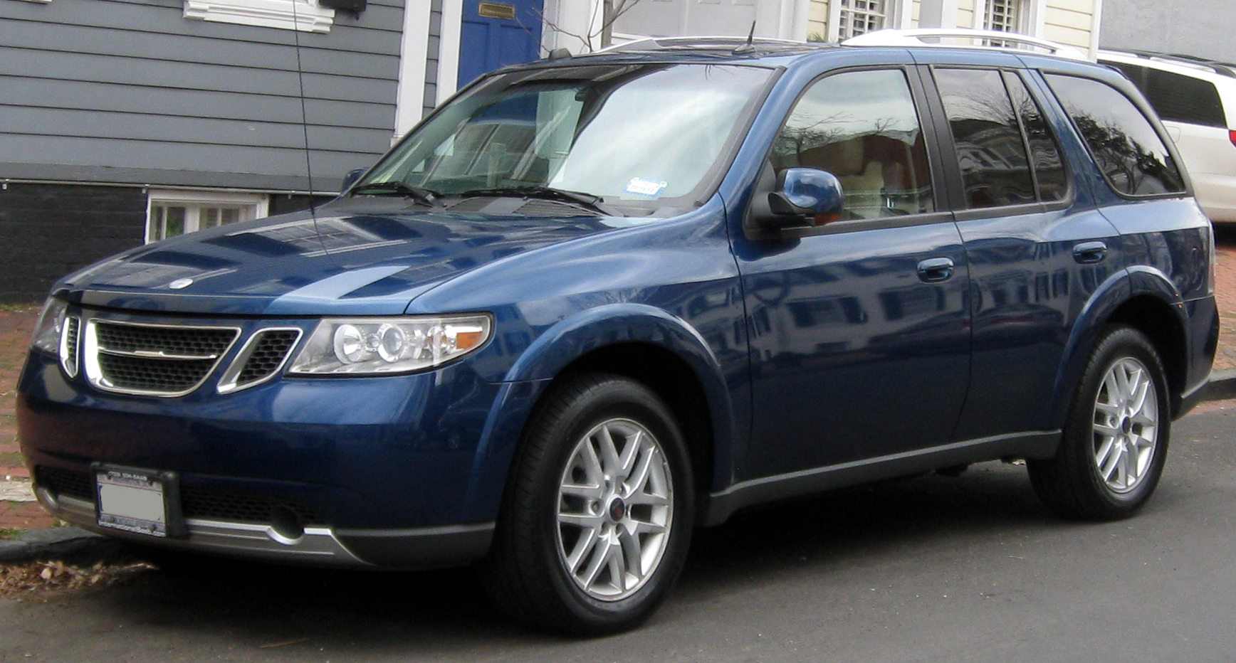 Saab 9-7X photographed in Washington, D.C., USA.